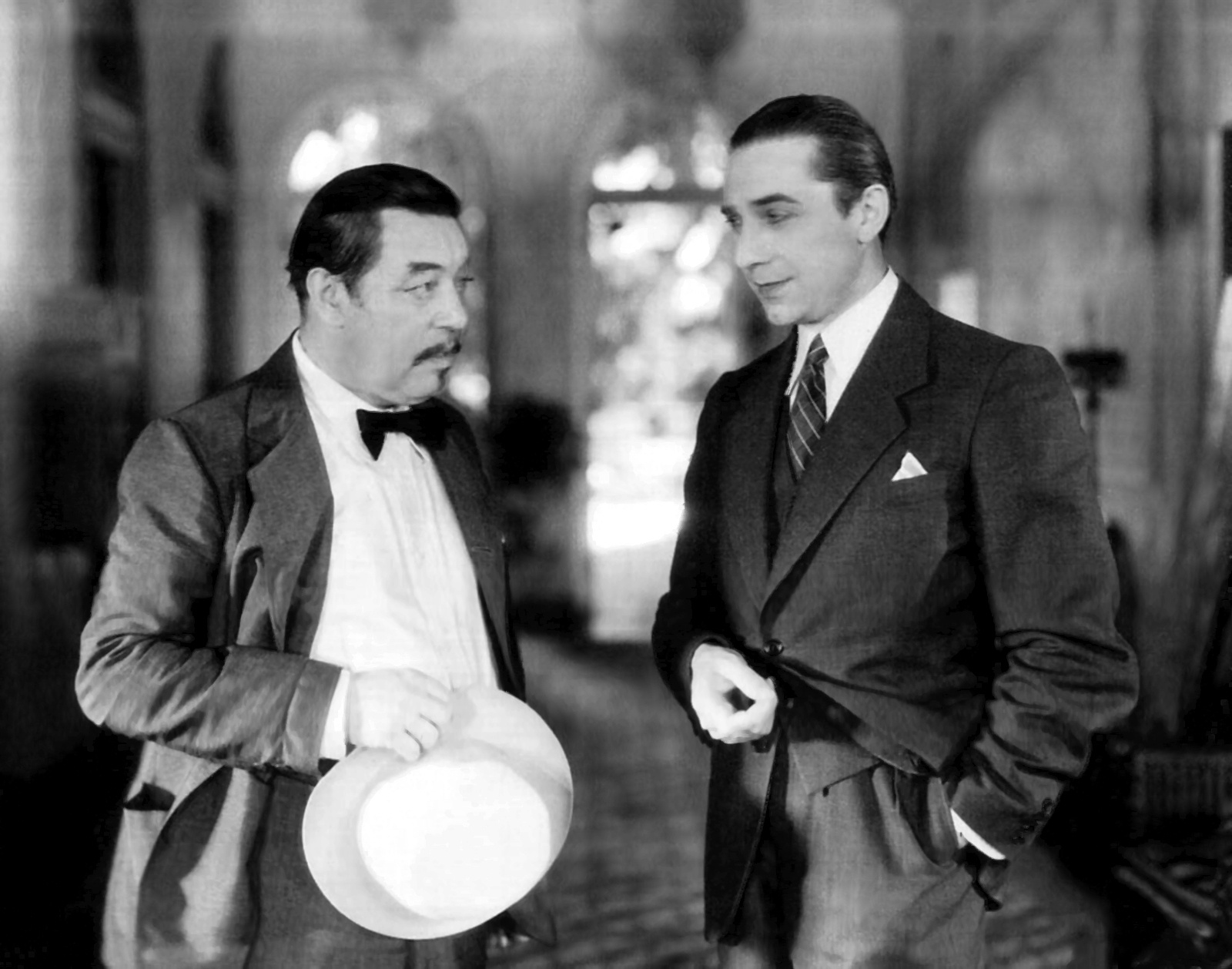 Warner Oland (left) and Béla Lugosi in The Black Camel (1931) - publicity still.